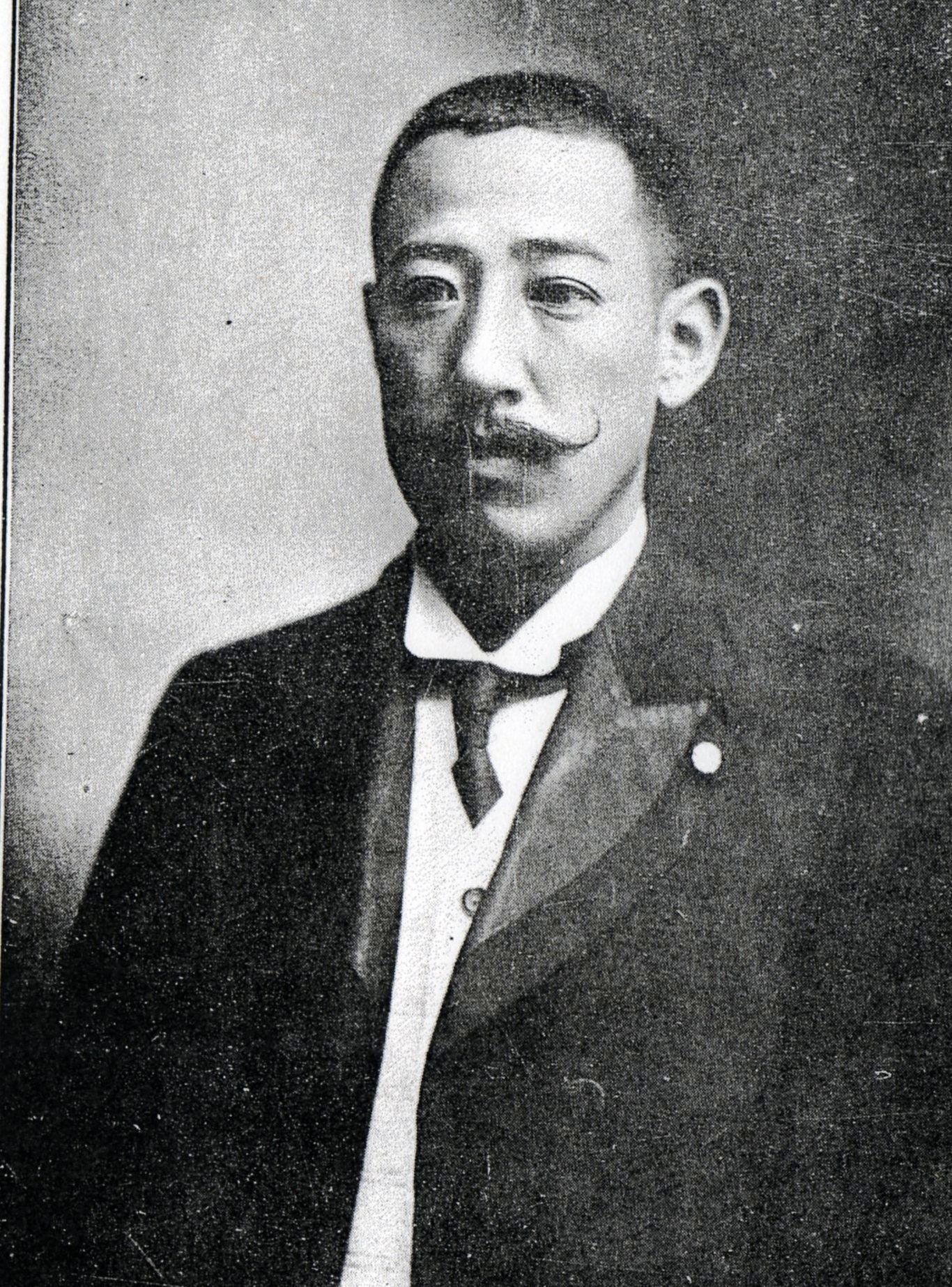 Matsudaira Takeo is the son of Matudaira Katamori